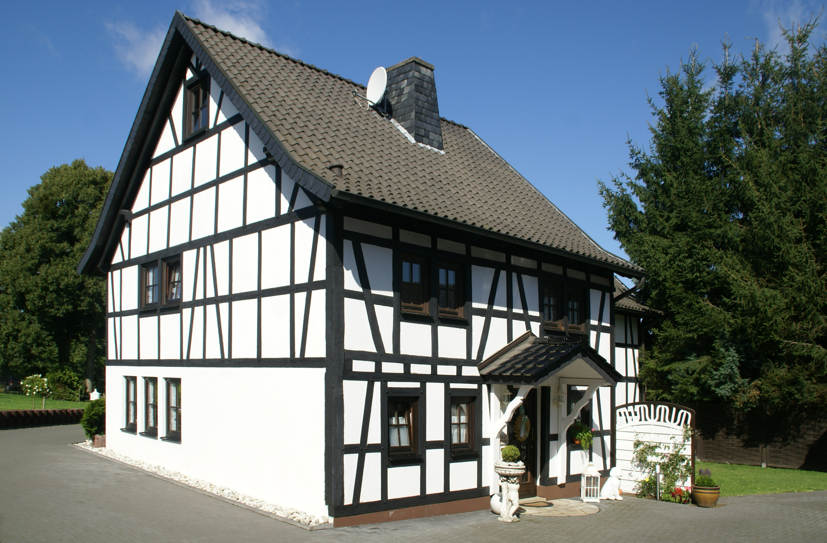 Half-timbered house in Eudenbach-Gratzfeld, Gratzfelder Straße 25